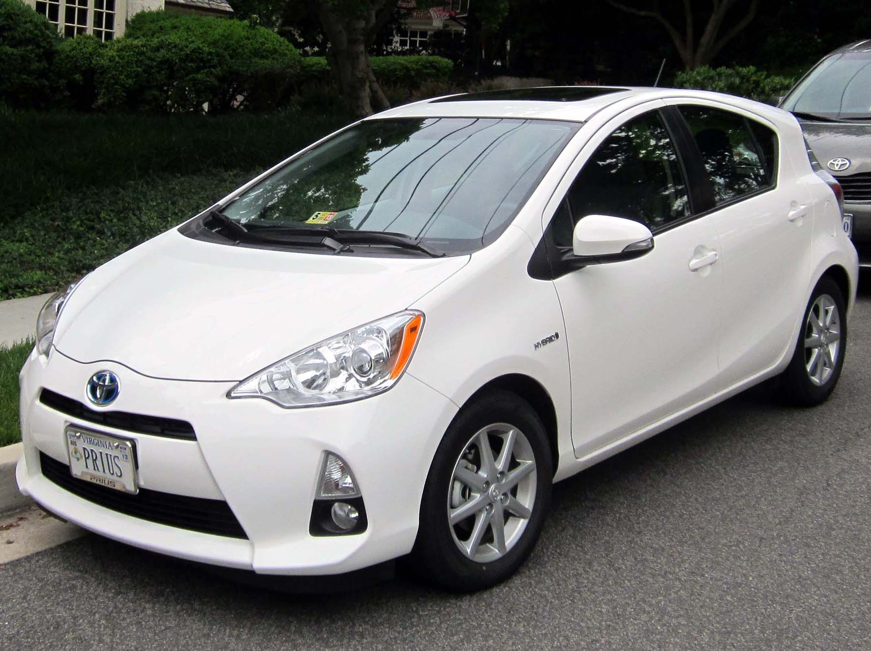 2012 Toyota Prius c photographed in Washington, D.C., USA.